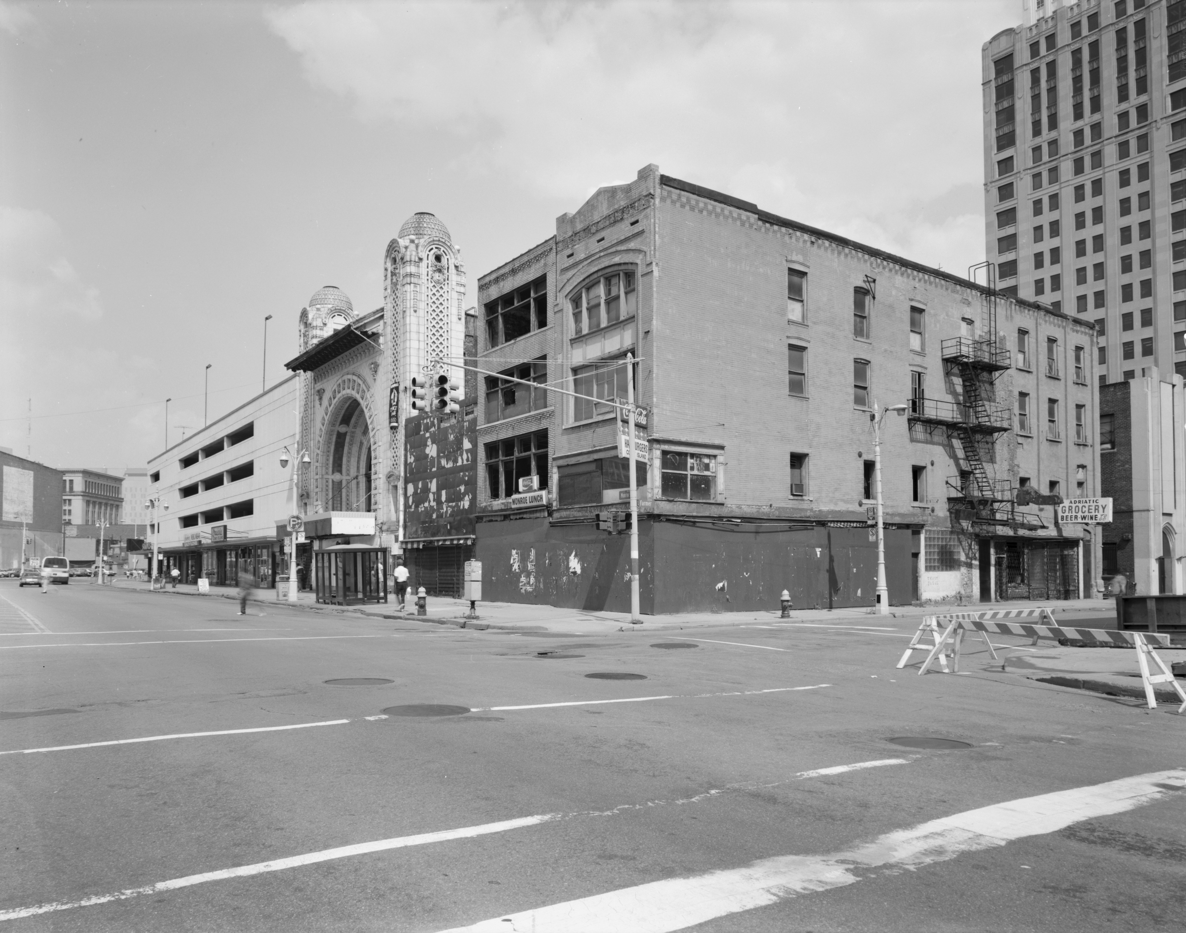 101–102 Monroe — Detroit, Michigan. Historic American Buildings Survey—HABS image (1989).